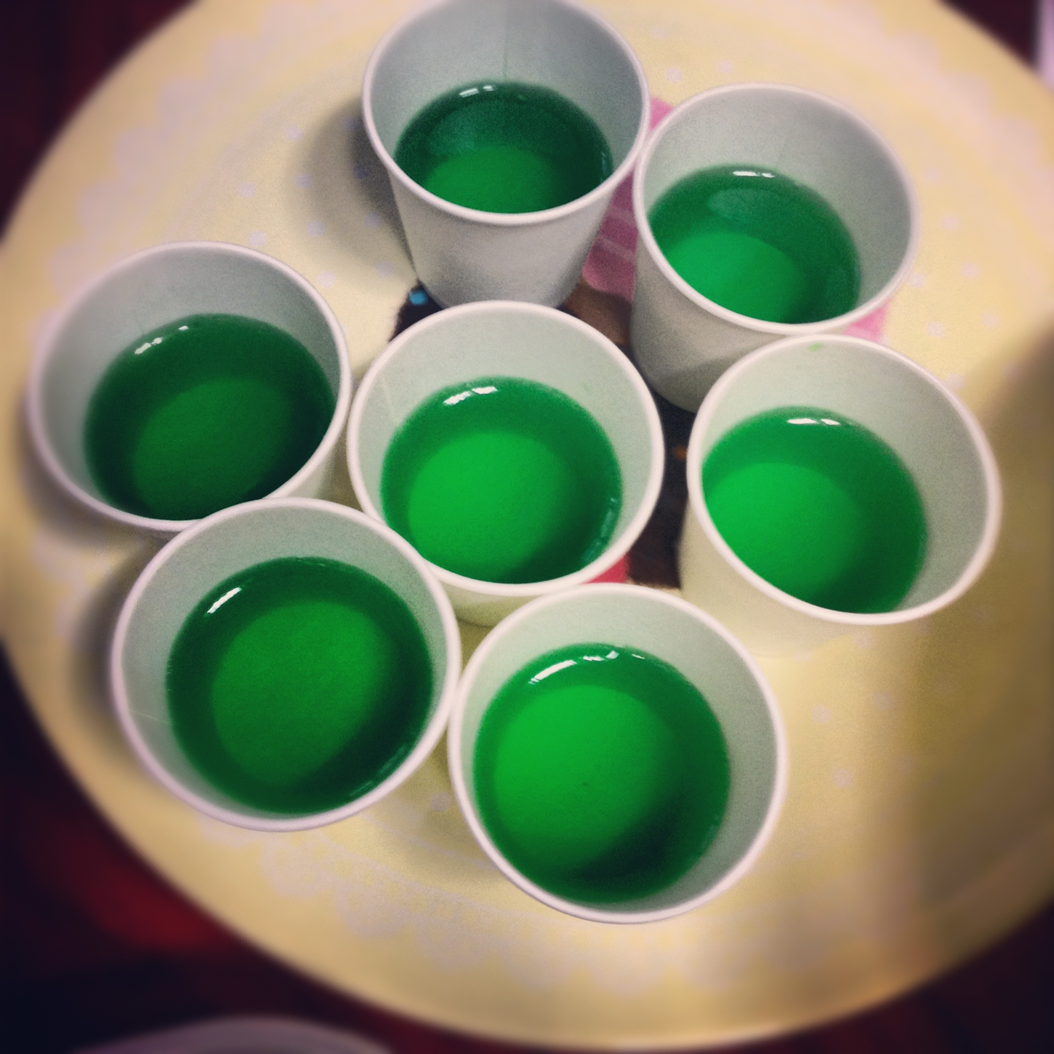 Soju jelly